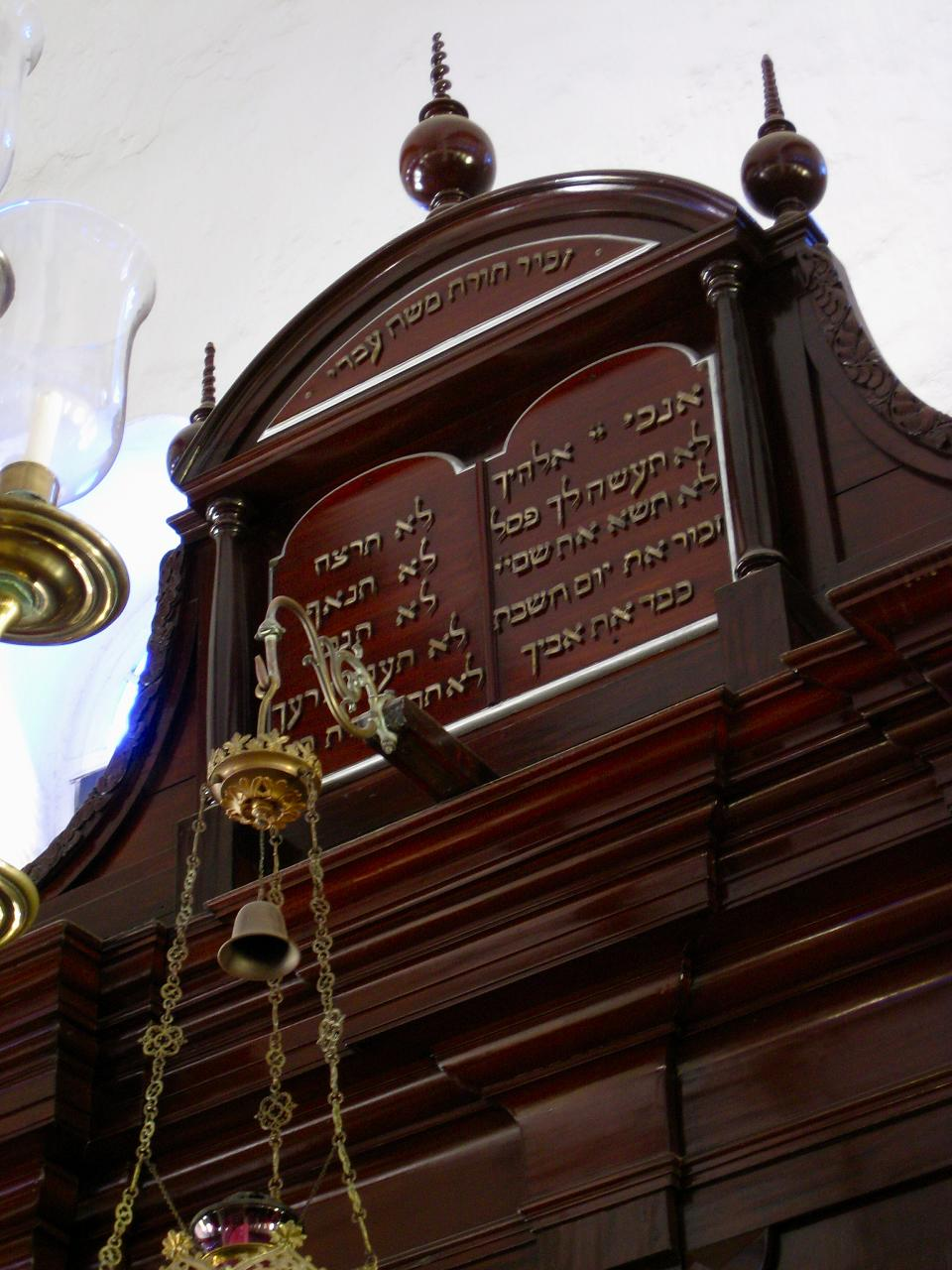 A Jewish temple in Willemstad, Curacao.